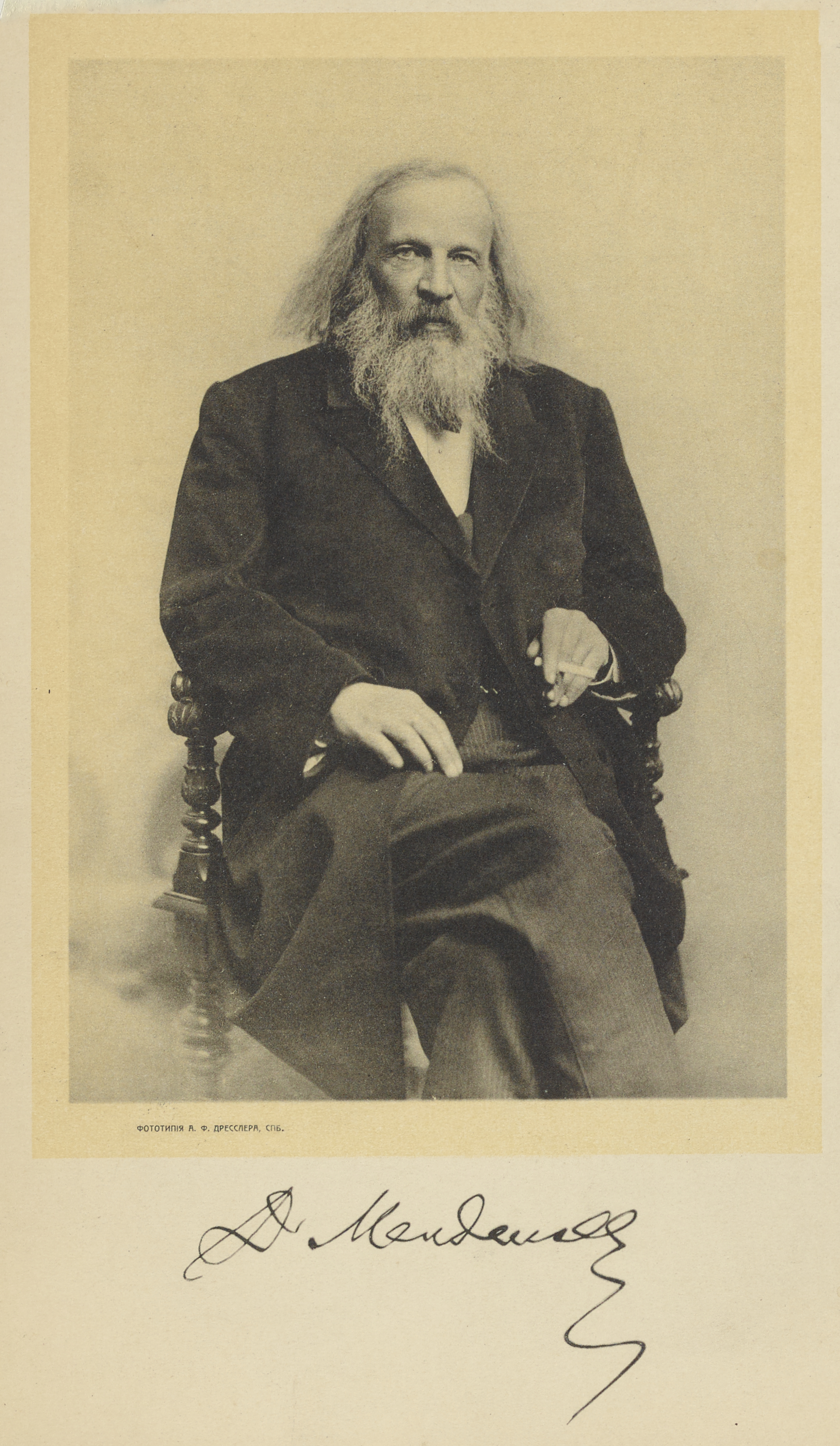 A portrait of Russian chemist Dmitri Ivanovich Mendeleyev (Дмитрий Иванович Менделеев), February 1834–2 Feb 1907. Frontispiece from "Fundamentals of Chemistry" (1897).